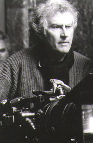 Film maker Fernando Solanas (1936—) on the set of Tangos: el exilio de Gardel (1985). (per image caption enwiki)